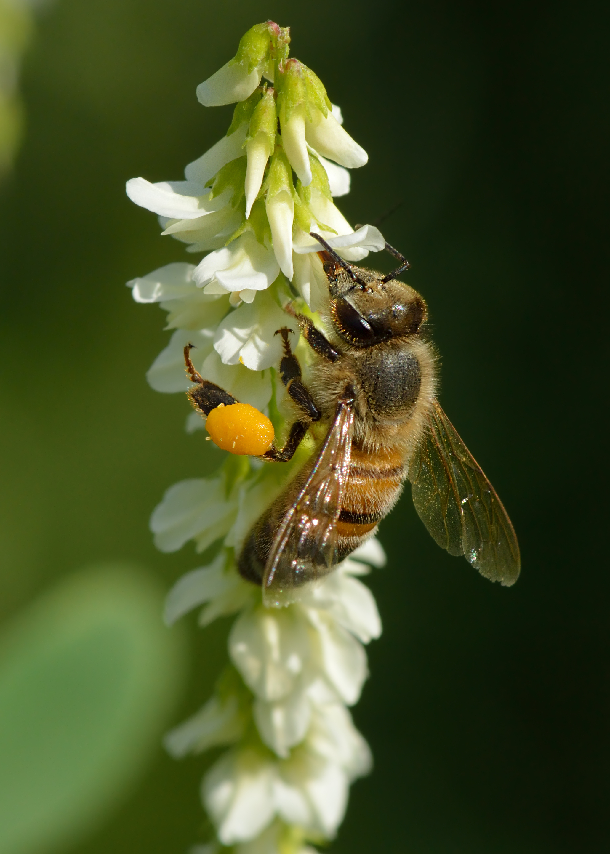 Italian bee (Apis mellifera ligustica) on the white sweet clover (Melilotus albus). Pollen basket contains yellow pollen. Keila, Northwestern Estonia.